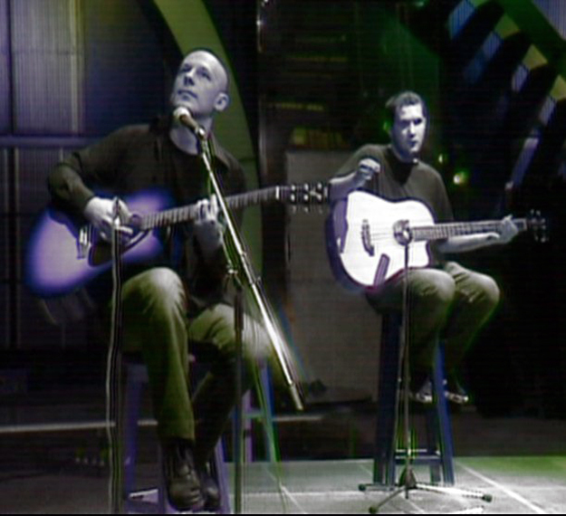 VODOLIJA MRTV UNPLUGGED